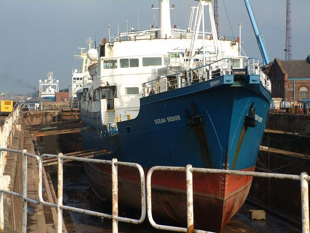 Drydock, William Wright Dock This drydock lies at the western extremity of the William Wright Dock and is always busy with offshore support vessels and tugs.